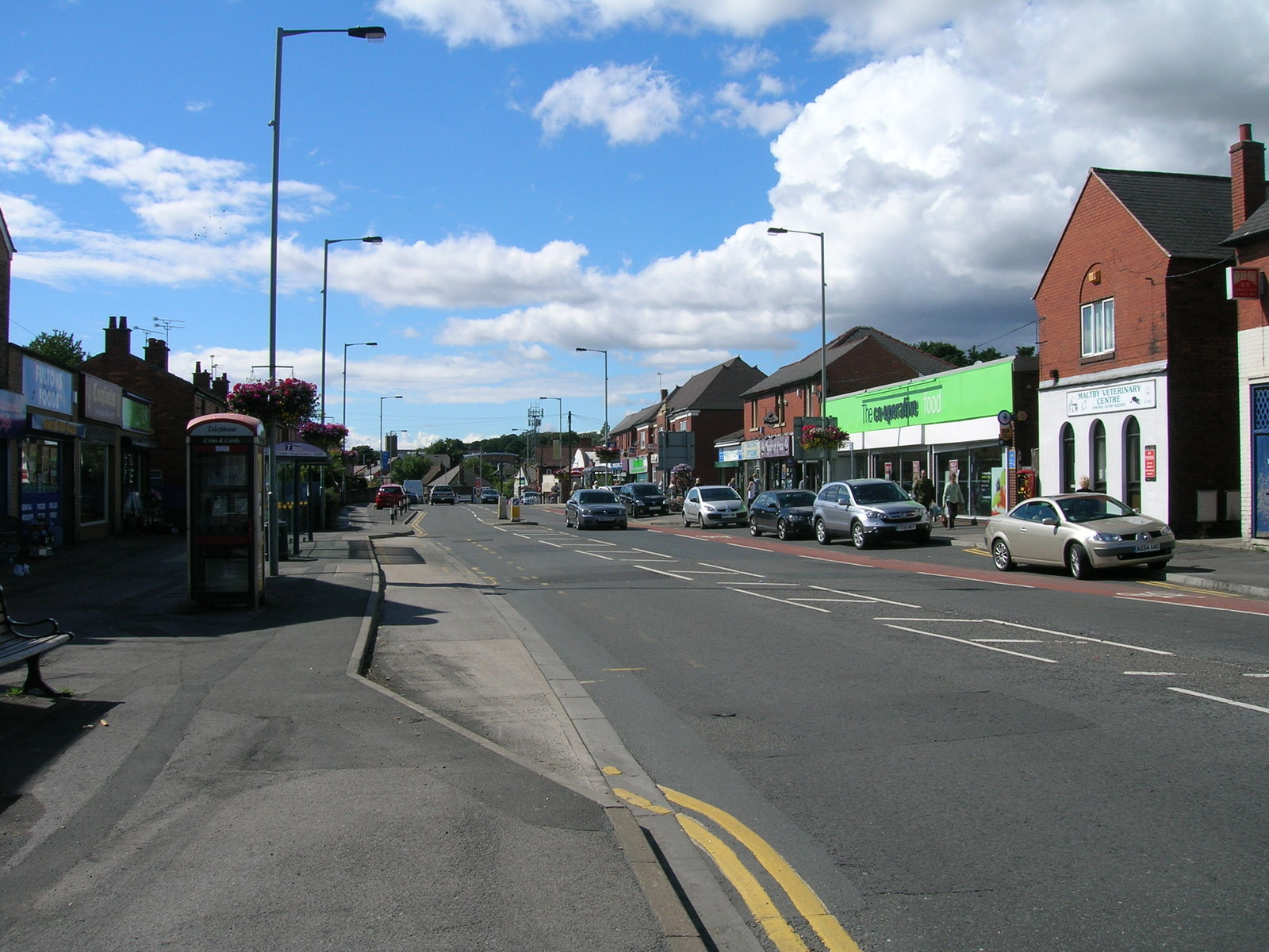 The main road through Maltby, High Street (A631).